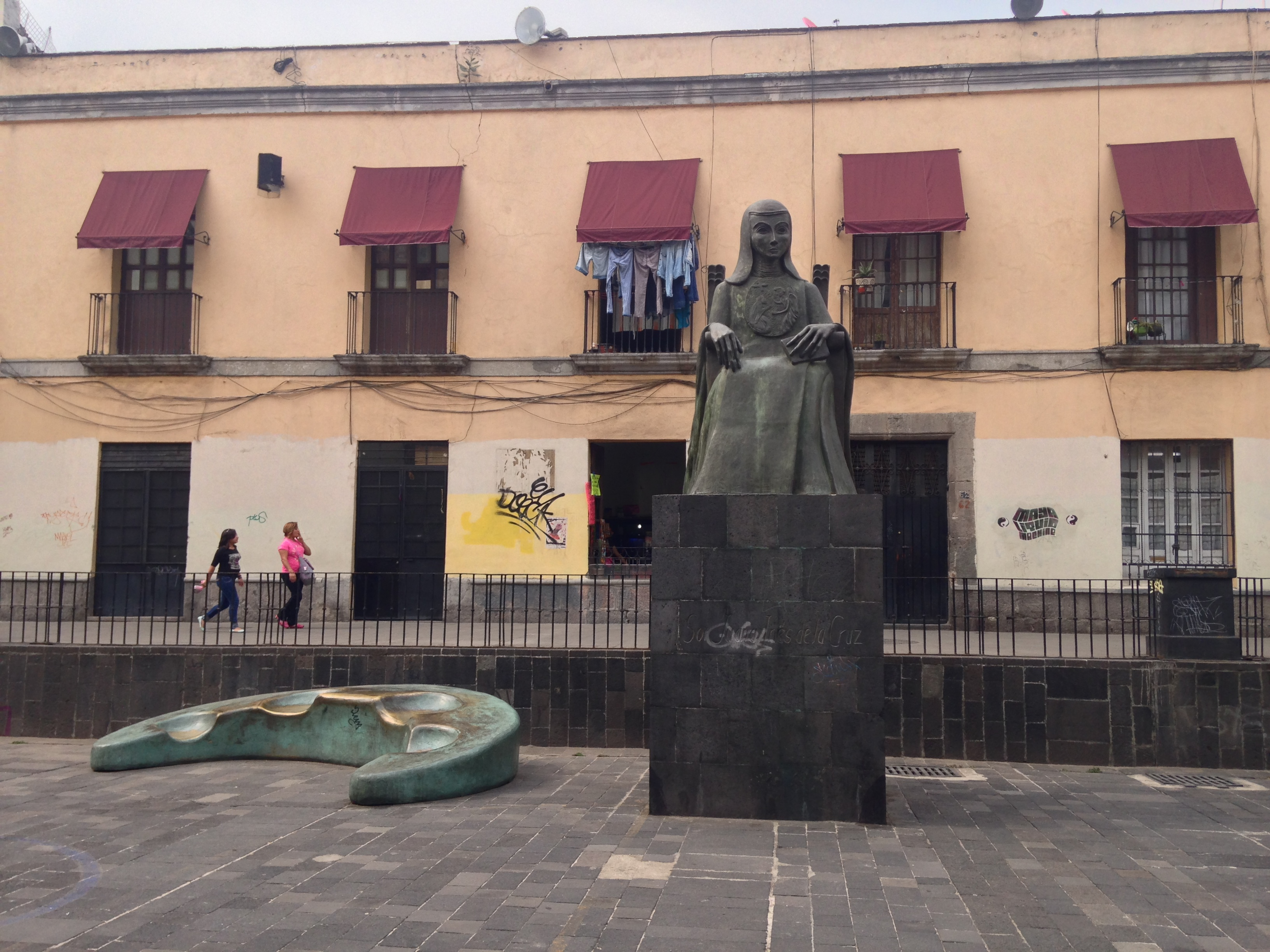 Monument devoted to Sor Juana Inés de la Cruz in front of San Jerónimo convent, Mexico City